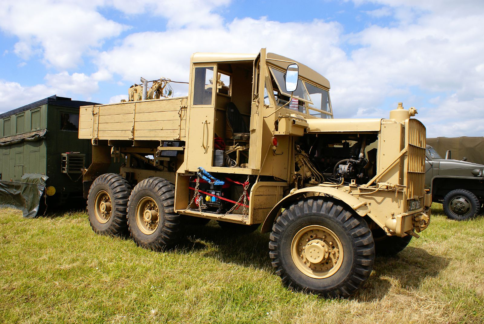 1955 Scammell Explorer at the Rougham air strip, Wings Wheels and Steam Country Fair. Bury St Edmunds Suffolk.